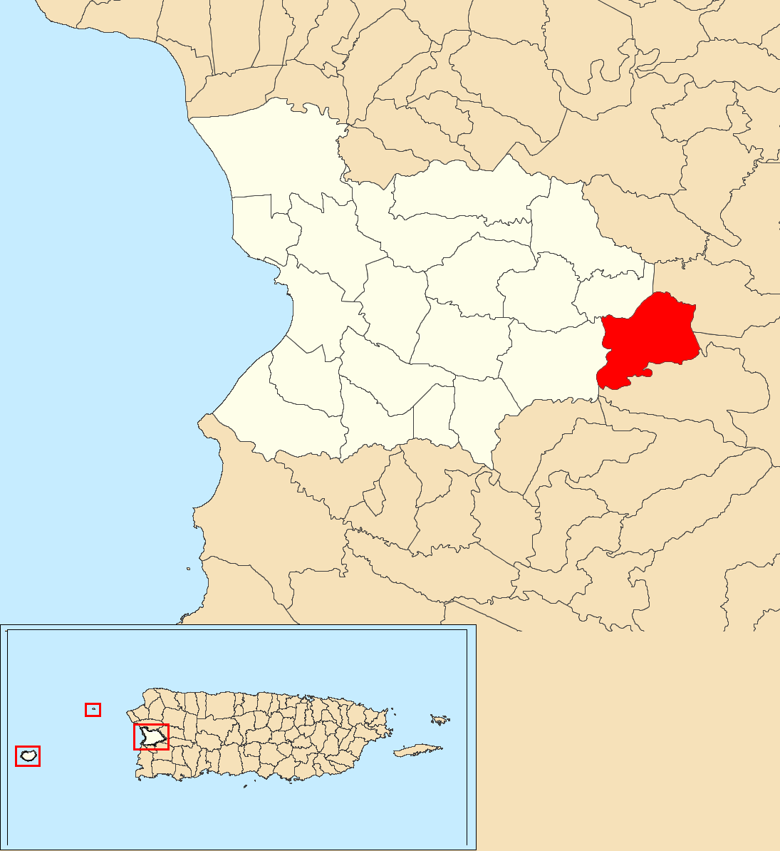 Montoso, Mayagüez, Puerto Rico locator map